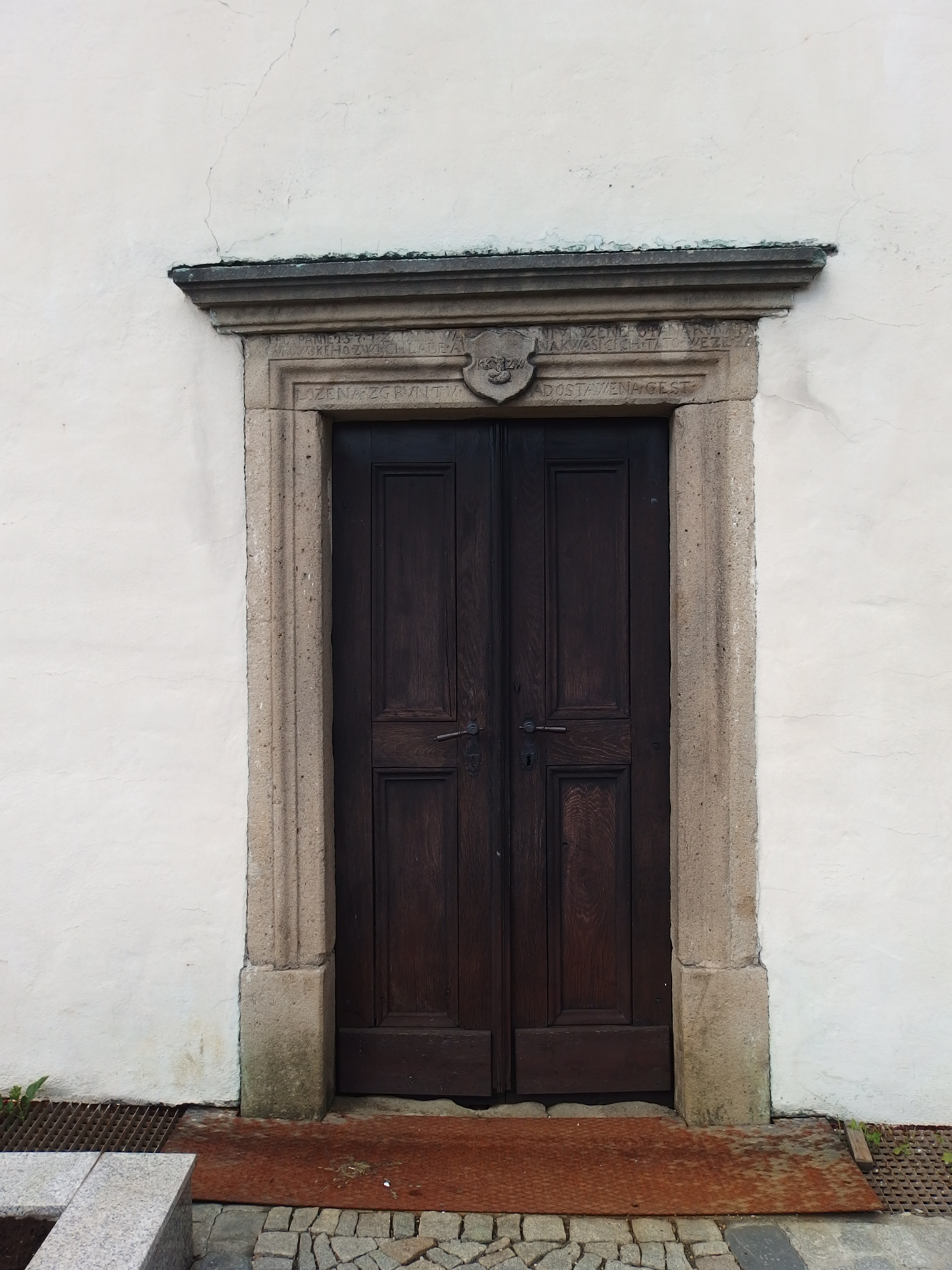 Kvasice, Kroměříž District, Czech Republic.